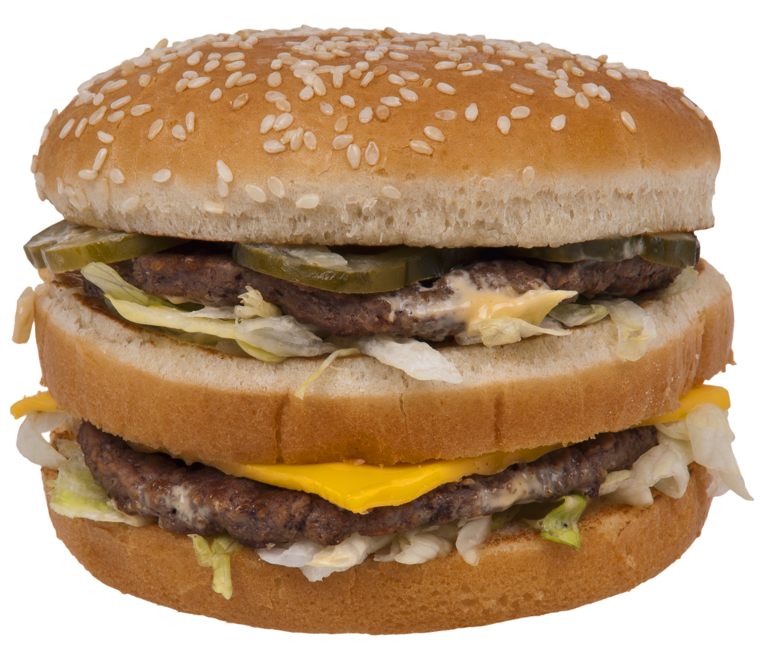 A McDonald's Big Mac hamburger, as bought in the United States.